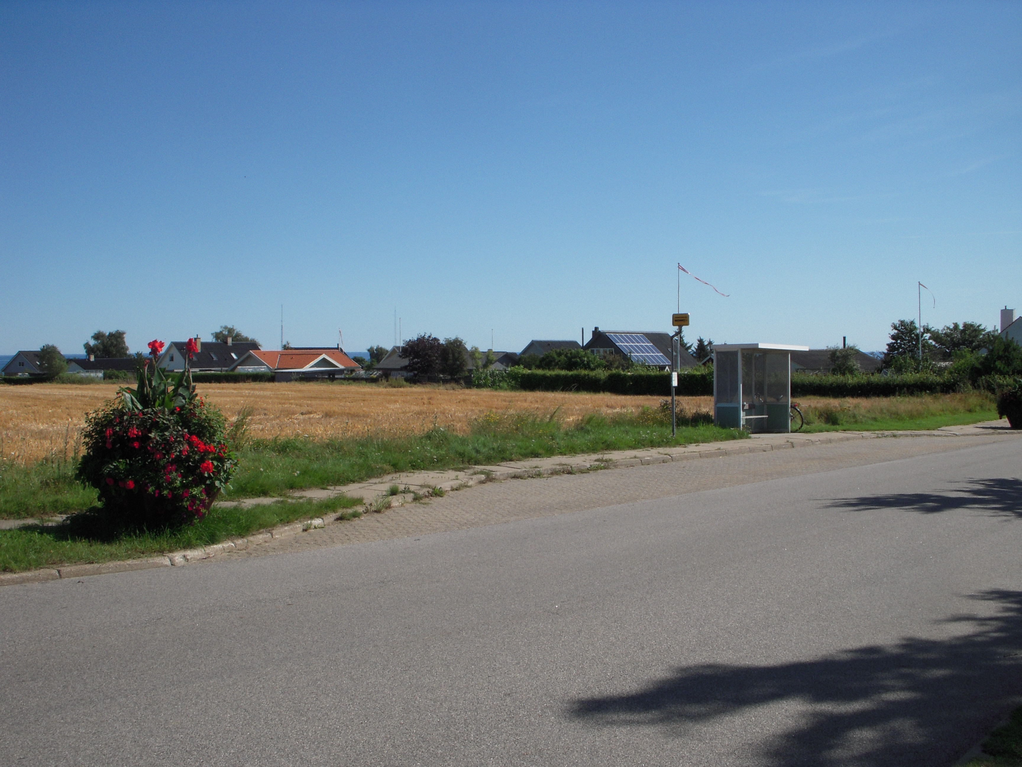 Bus stop in Haldbjerg, near Frederikshavn in Denmark. August 27, 2012.